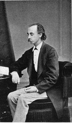 Photo of conductor August Manns when he was 43 years old